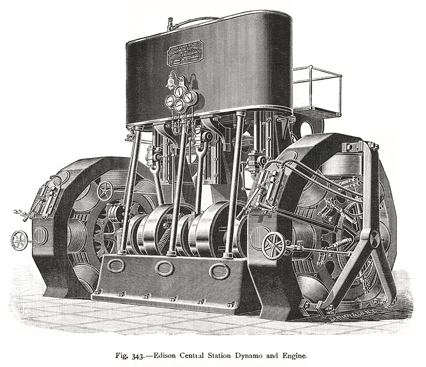 Two dynamos are shown coupled to the triple expansion marine engine on a single shaft. Each dynamo has an output of 100 kilowatts giving 666 ampères at 150 volts.